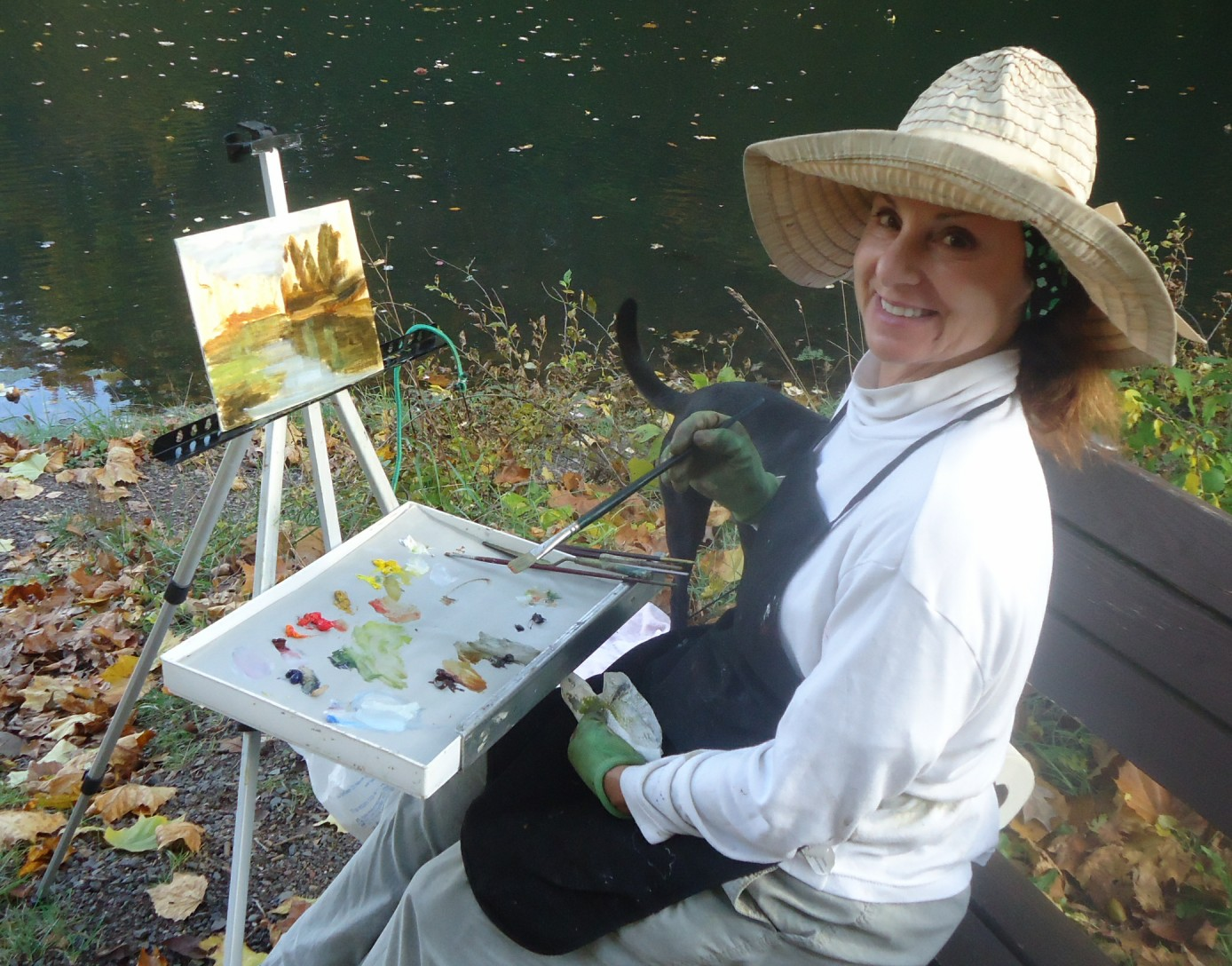 Landscape artist Emma Auriemma, based in Reno, Nevada, paints an outdoor scene at Echo Lake Park in Mountainside, New Jersey.